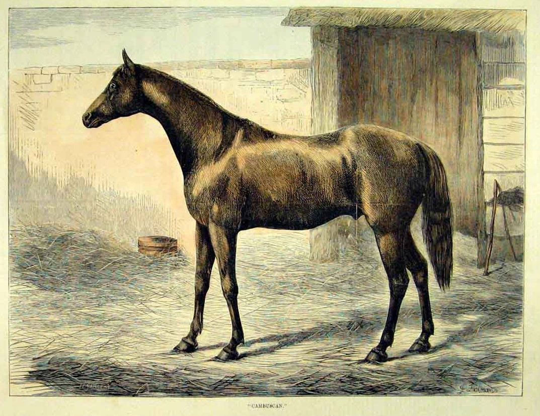 ld Original Antique Victorian Print Historic Fine Art - 1874 Sepia Print Brown Horse Cambuimage Old Print Page From An Issue Of The Illustrated Sporting Dramatic News1870 Ø¨« 1890 Date Is Printed On... in